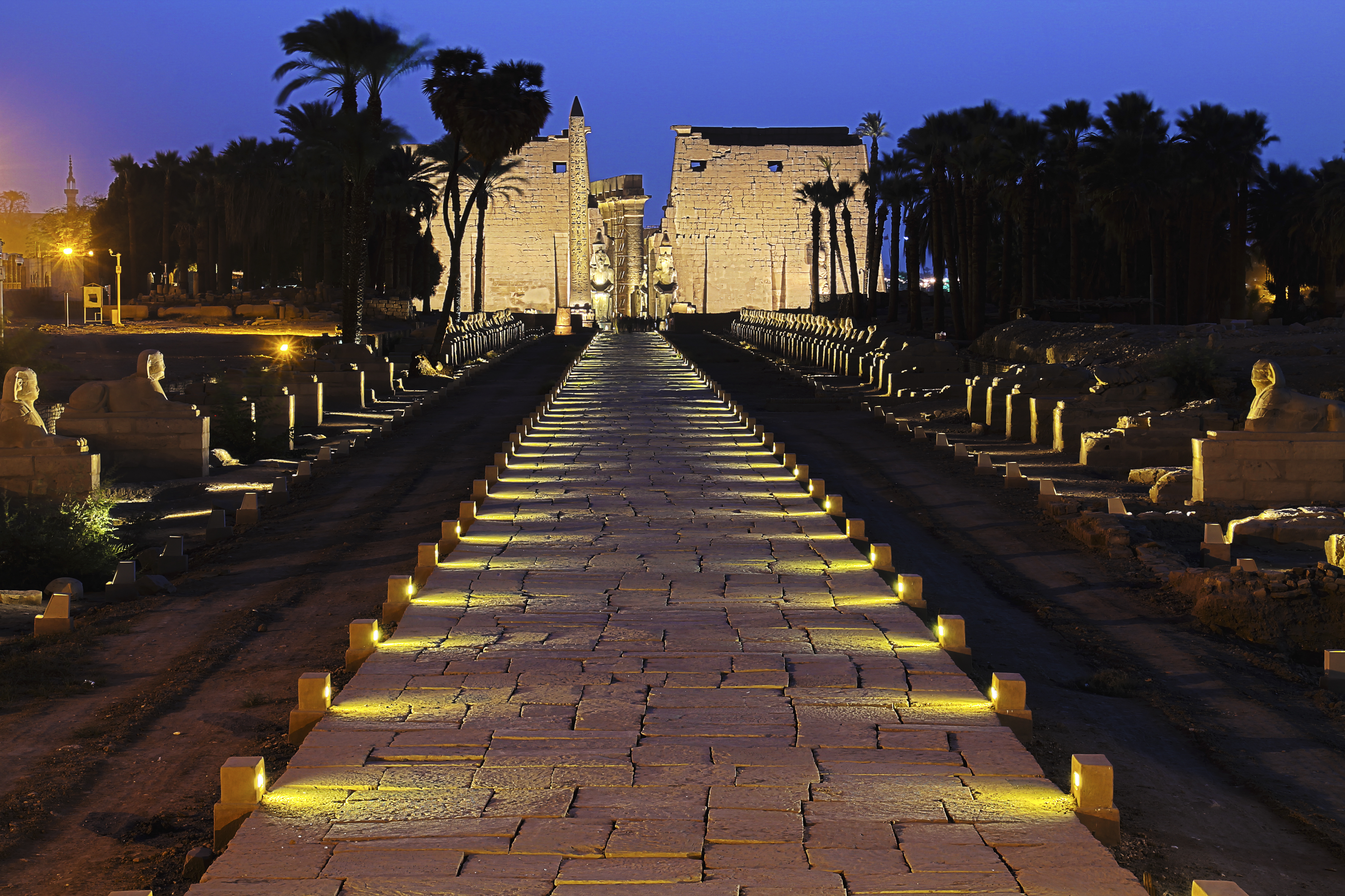 Luxor Temple is a large Ancient Egyptian temple complex located on the east bank of the Nile River in the city today known as Luxor and was founded in 1400 BCE. Known in the Egyptian language as ipet resyt, or "the southern sanctuary